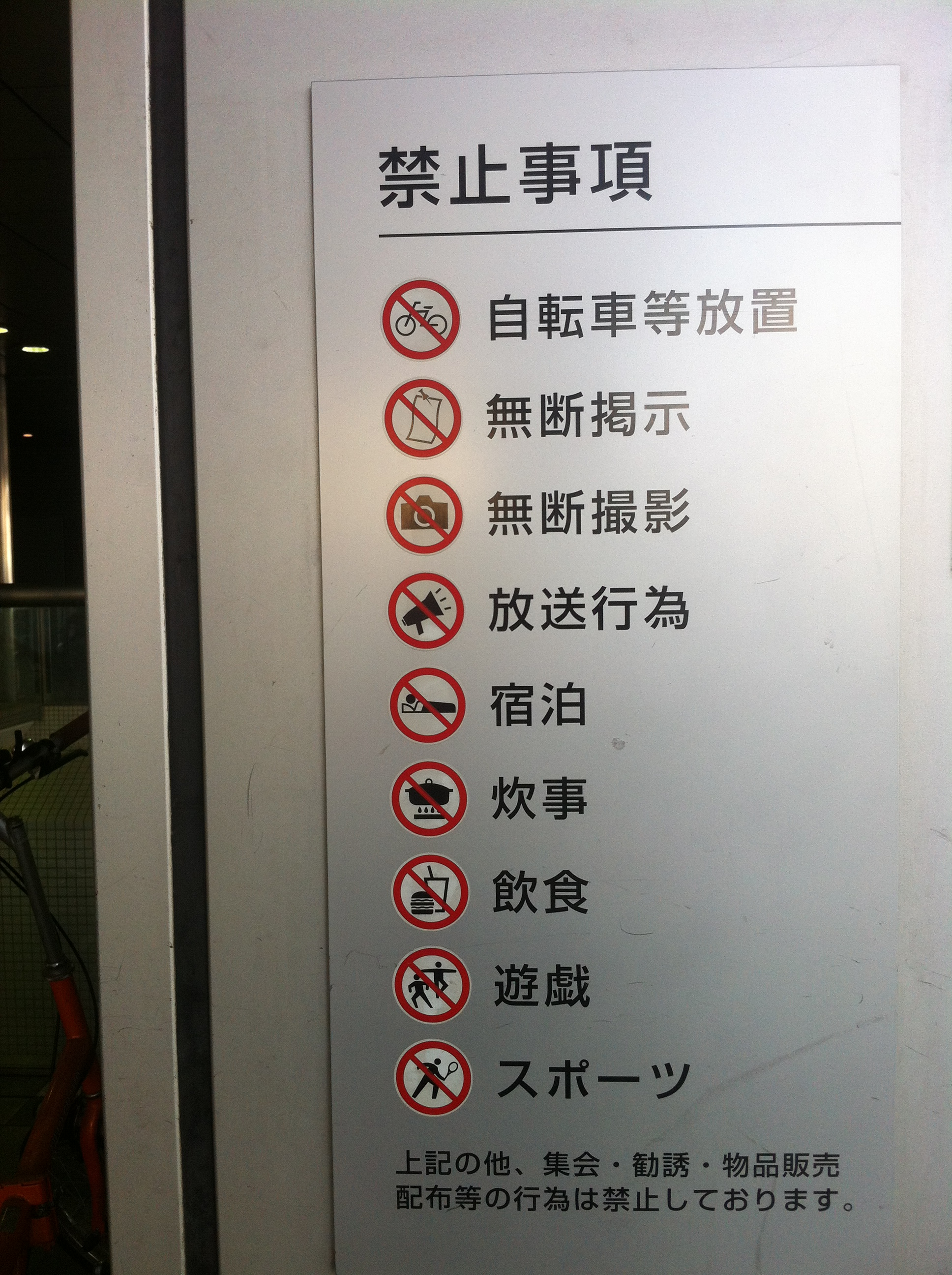 ビルの禁止事項 A building's forbidden actions